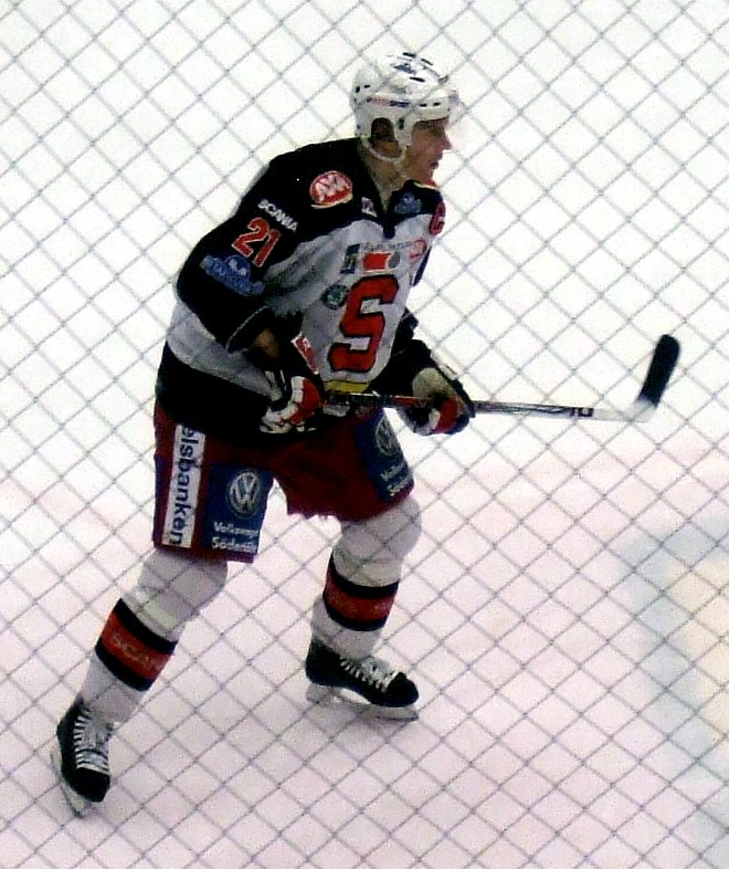 Finnish Ice hockey player Jarno Kultanen of Södertälje SK during the Swedish Elite League game Timrå IK-Södertälje SK (0-1) inside the E.ON Arena, Timrå, Sweden.